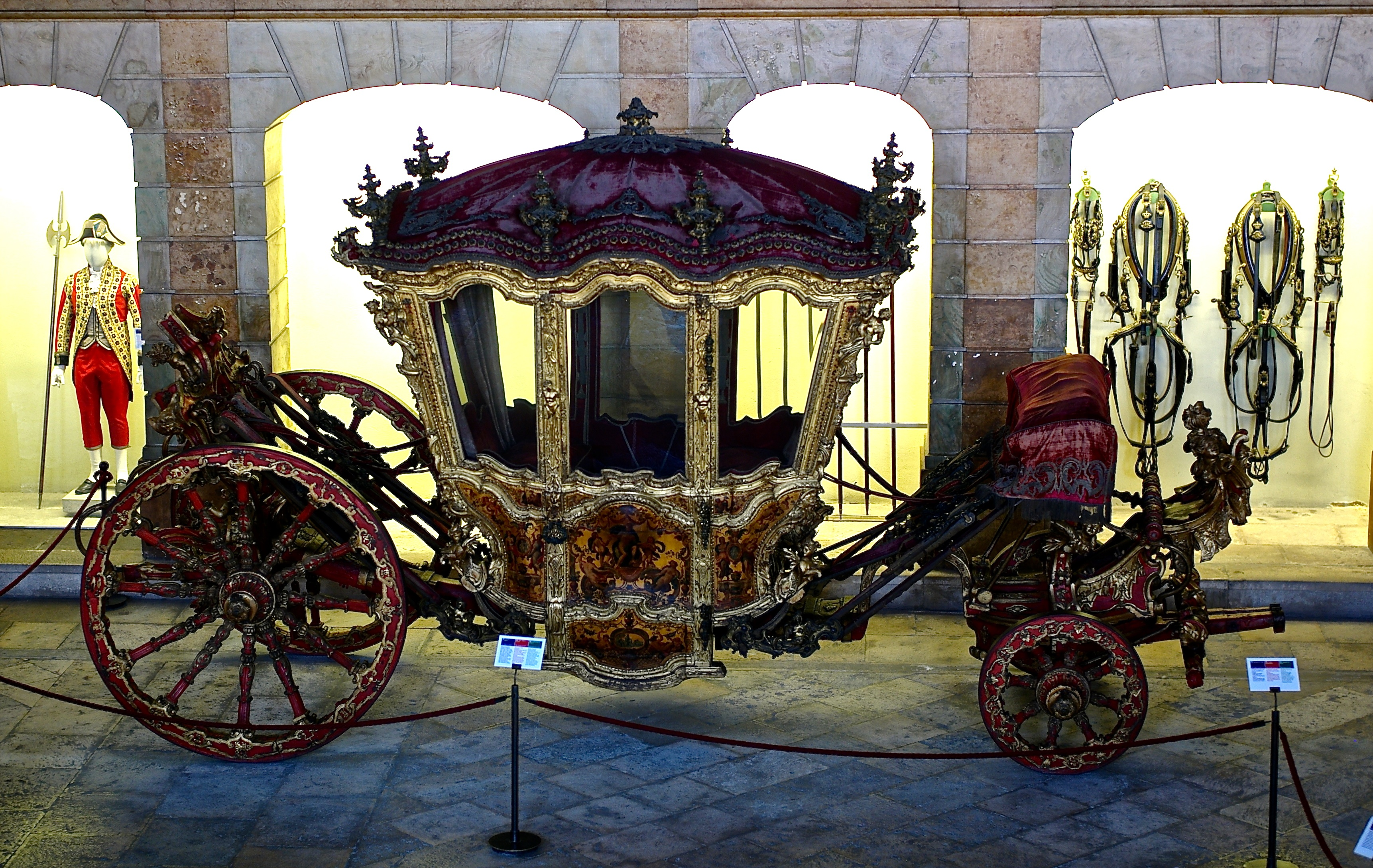 Coach Museum, Belem, Lisbon, Portugal Ceremonial portuguese vehicle. Ordered by King João V to the Royal House. During the 19th century it was used by foreign country leaders visiting Portugal. Woodcarvings by José and Vicente de Almeida. Body Paintings by José da Costa Negreiros. On the rear wheels the twelve symbols of the zodiac.